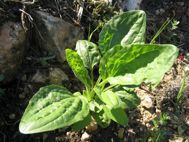 Plantago major Image taken by me on 20 March 2004 in the outdoor botanical garden of Technion - Haifa, Israel. Please note - the image doesn't show the blossom of the plant. If somebody has a quality image with blossom - please replace.